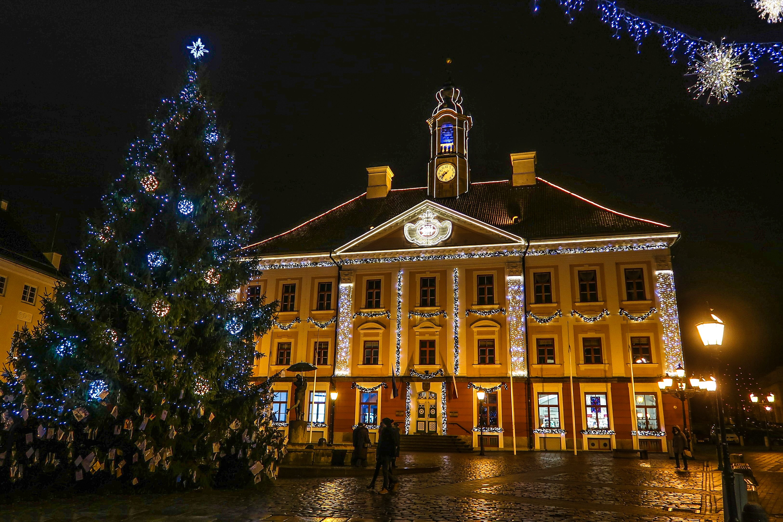 Tartu Town Hall (Estonia) in December 2016.